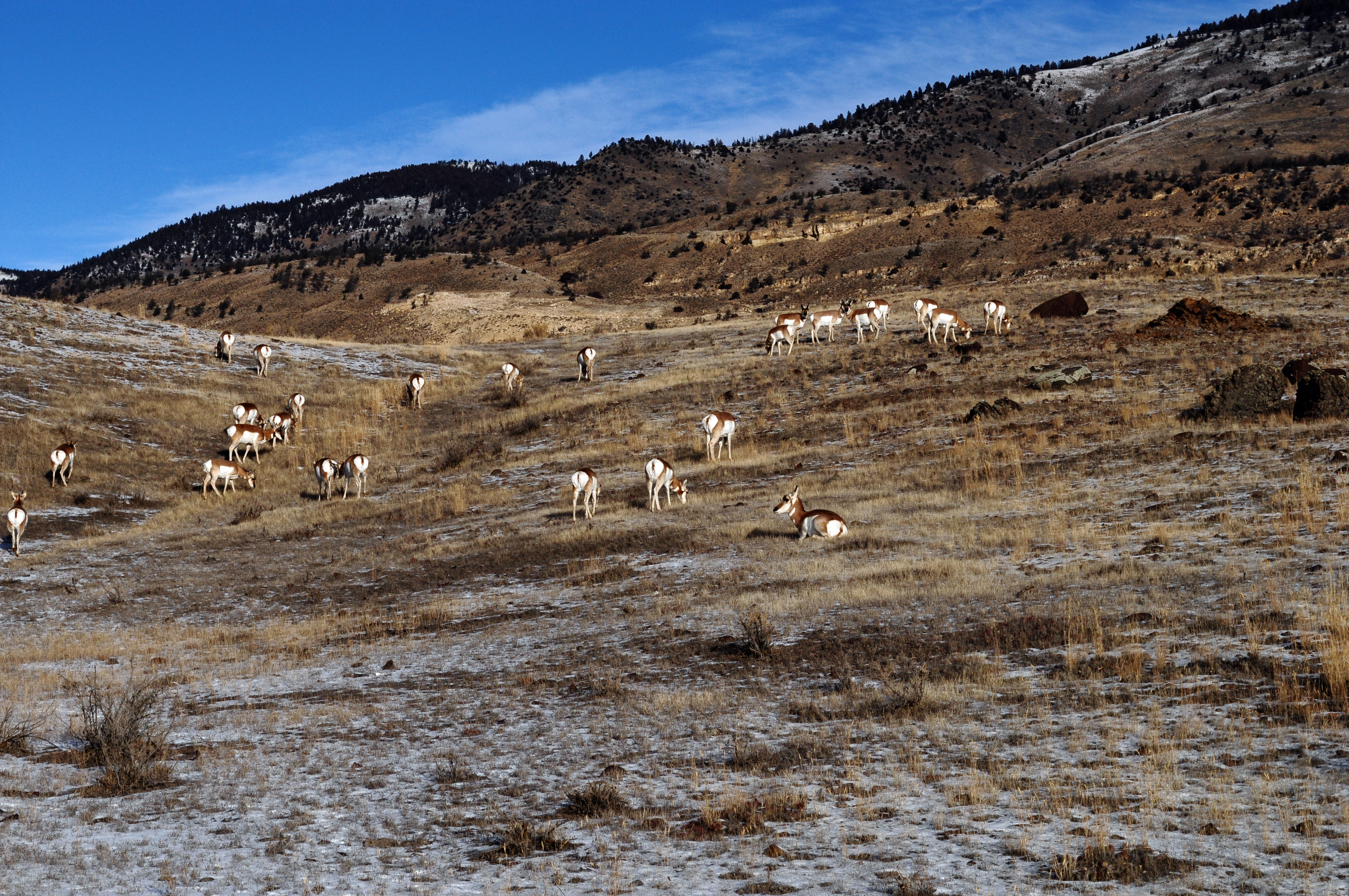 Pronghorn Antelope Herd, Yellowstone National Park, December 2009